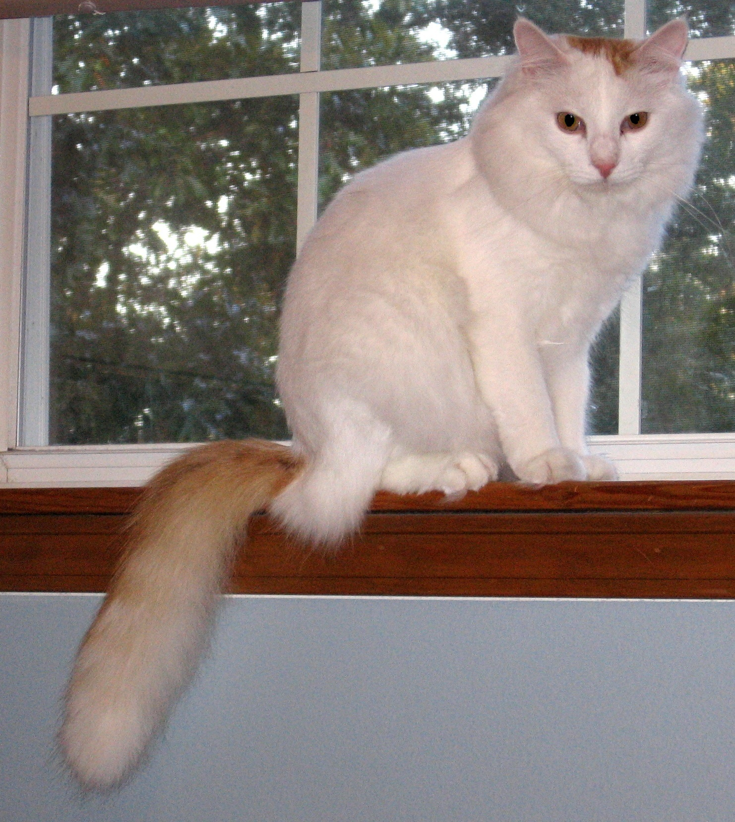 Hobie is a 5 year old Turkish Van cat